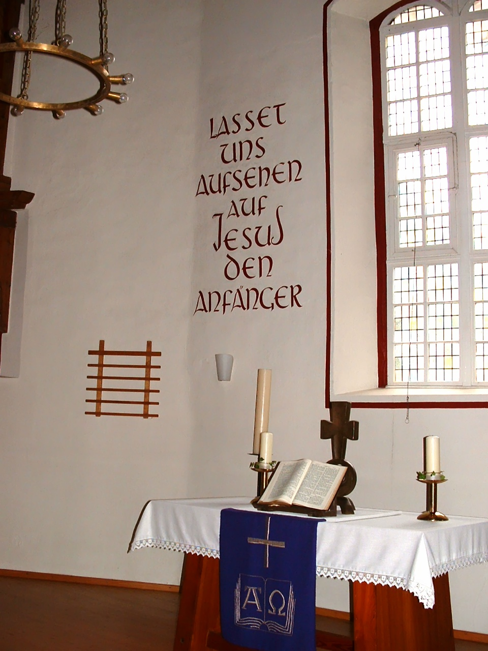 Evangelische Kirche, Oberkirn